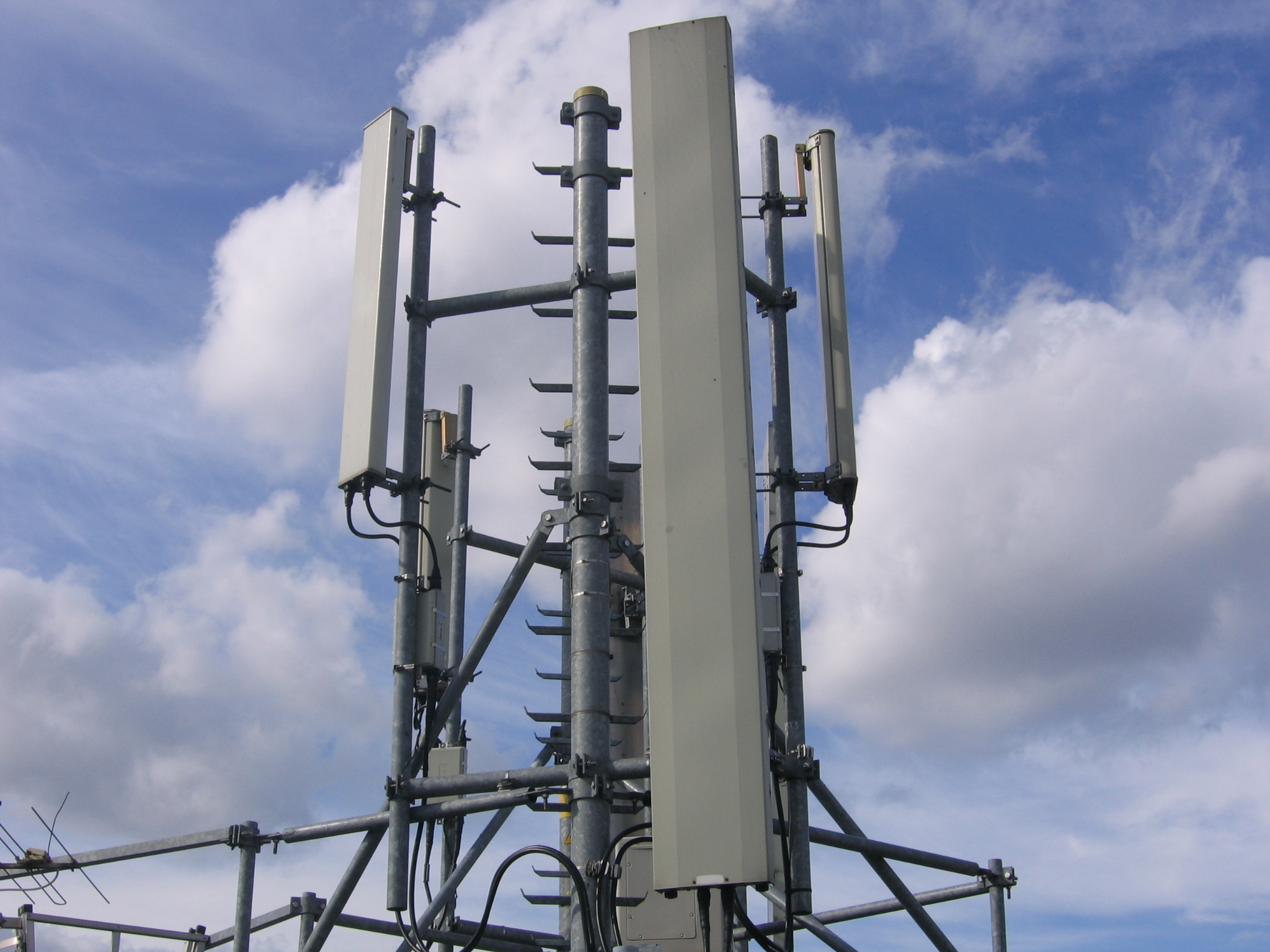 A GSM base station on a roof of Paris, France